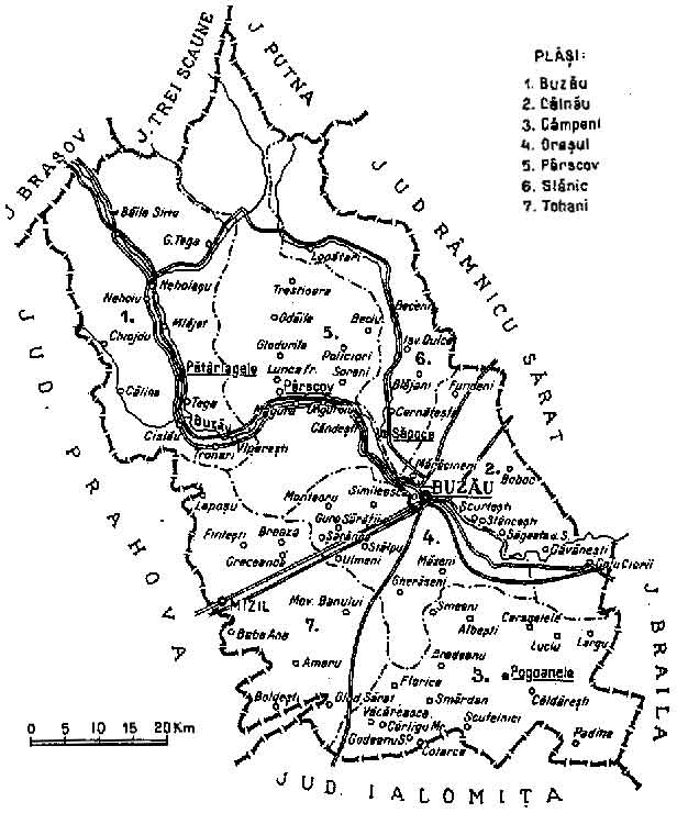 Map of Buzău interwar county, Kingdom of Romania (1938).